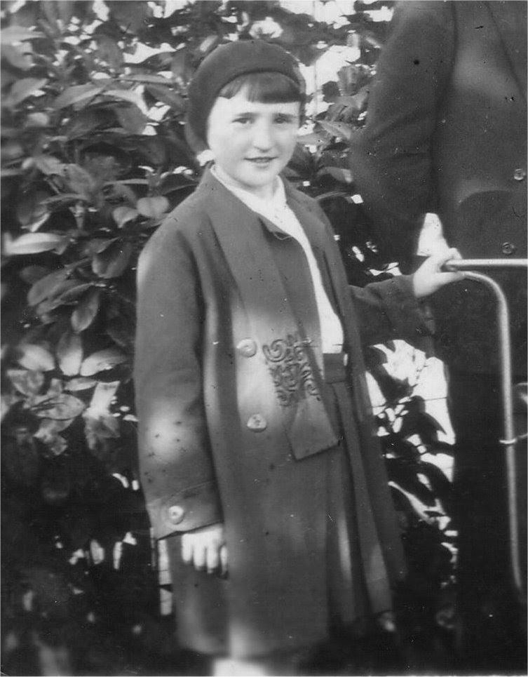 1932 Photograph of Lola Rappaport, victim of the holocaust during the war, arrested in the rue Sainte Catherine Roundup in Lyon in 1943 by Klaus Barbie. Photographed in France.